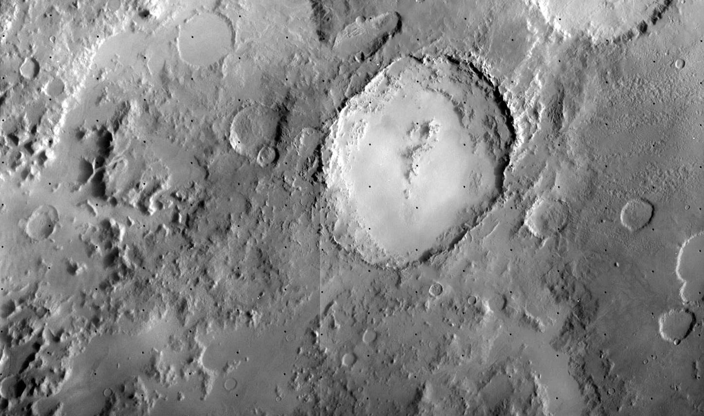 Oblique view of Hale crater on Mars. Viking 1 images from camera B (611A44, 611A46). Red filter was used for this image. Resolution is about 228 m/pixel. Approximate north is in upper right. Statistics for right image are below: Emission Angle: 30.6 Incidence Angle: 70.7 Latitude: -35.3 Longitude: 325.1 Phase Angle: 91.7